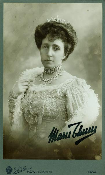 Princess Maria Teresa de Braganza (1855–1944), third wife of Archduke Karl Ludwig of Austria